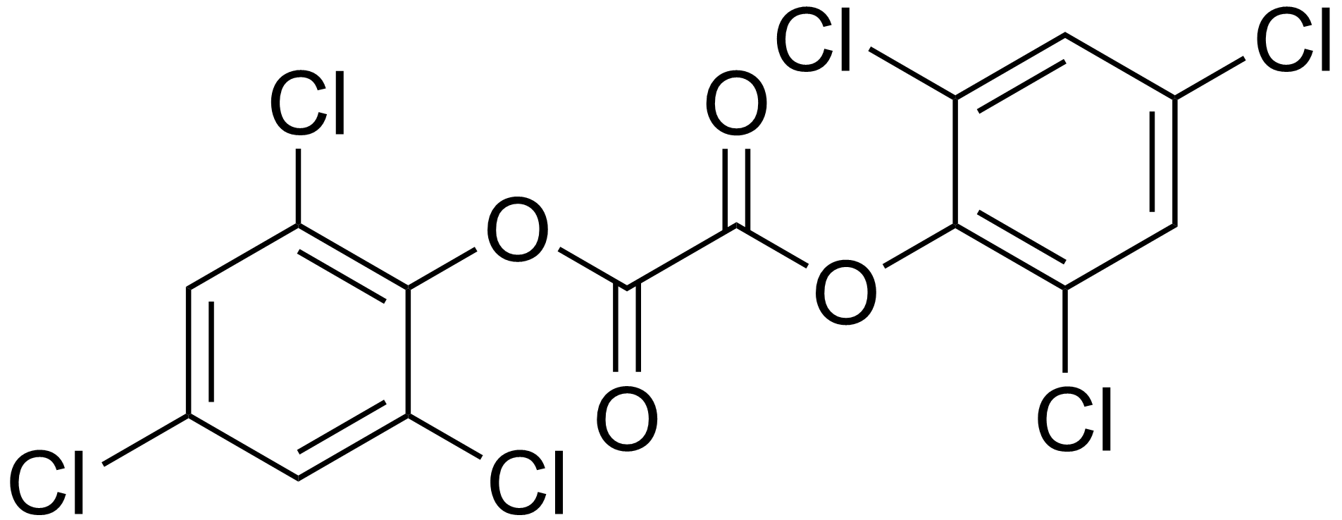 Chemical structure of oxalic acid bis-(2,4,6-trichloro-phenyl) ester; Bis(2,4,6-trichlorophenyl) oxalate; TCPO)